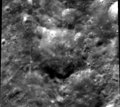 Sisakyan lunar crater - Clementine image.